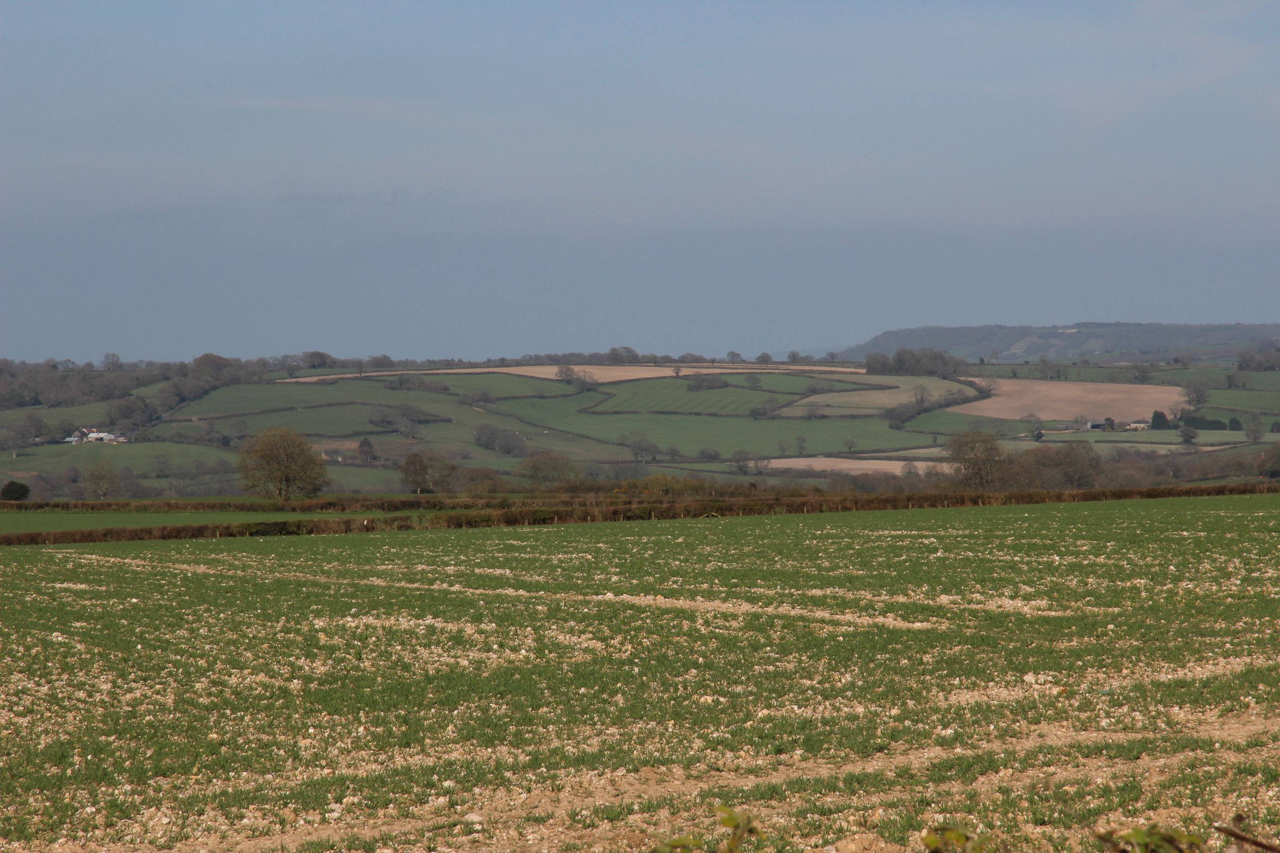 West Hill near Evershot in Dorset seen from Toller Down Gate on the A356 to the west. The summit is in the centre of the image.